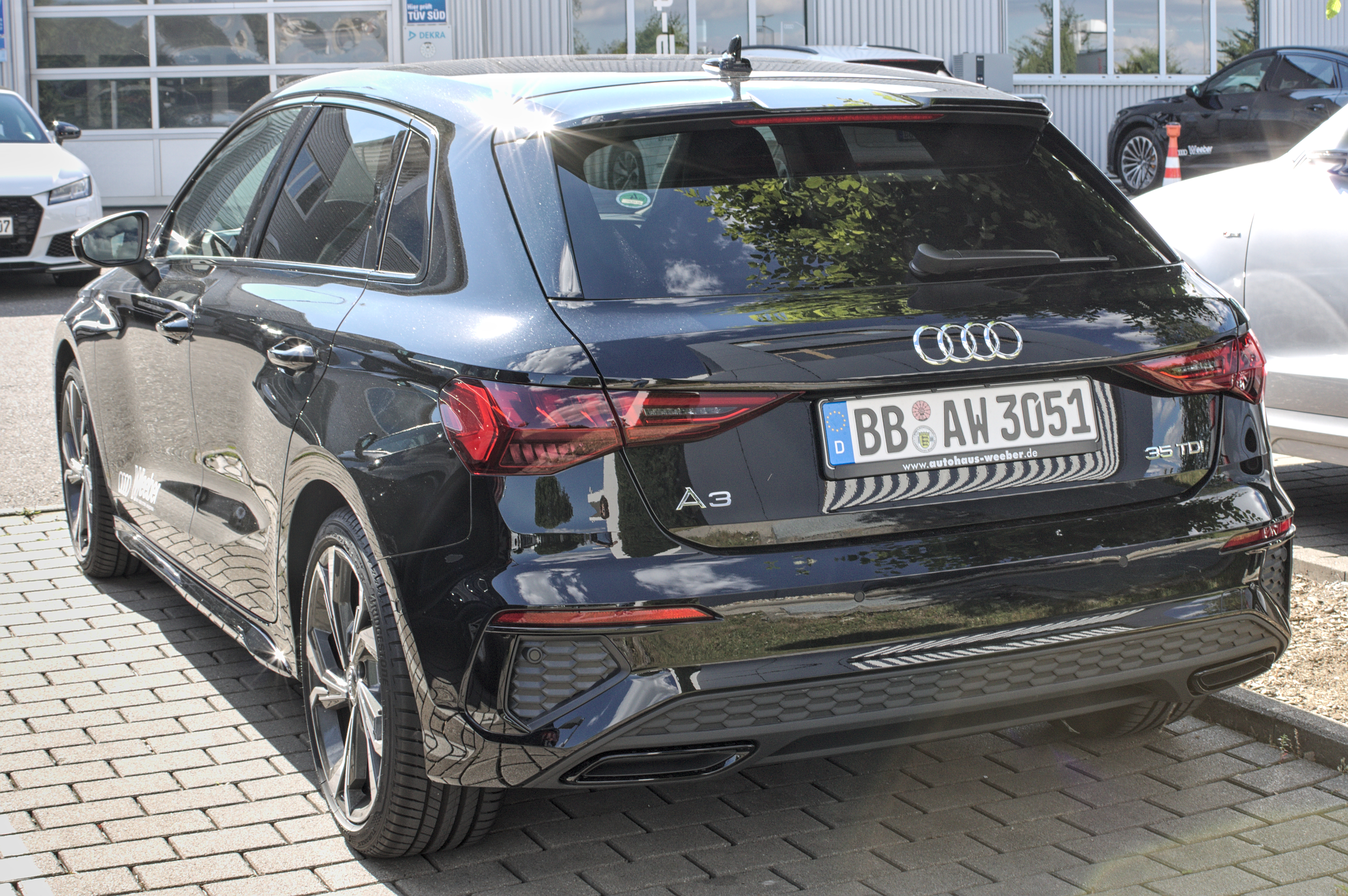 Audi_A3_8Y in Herrenberg